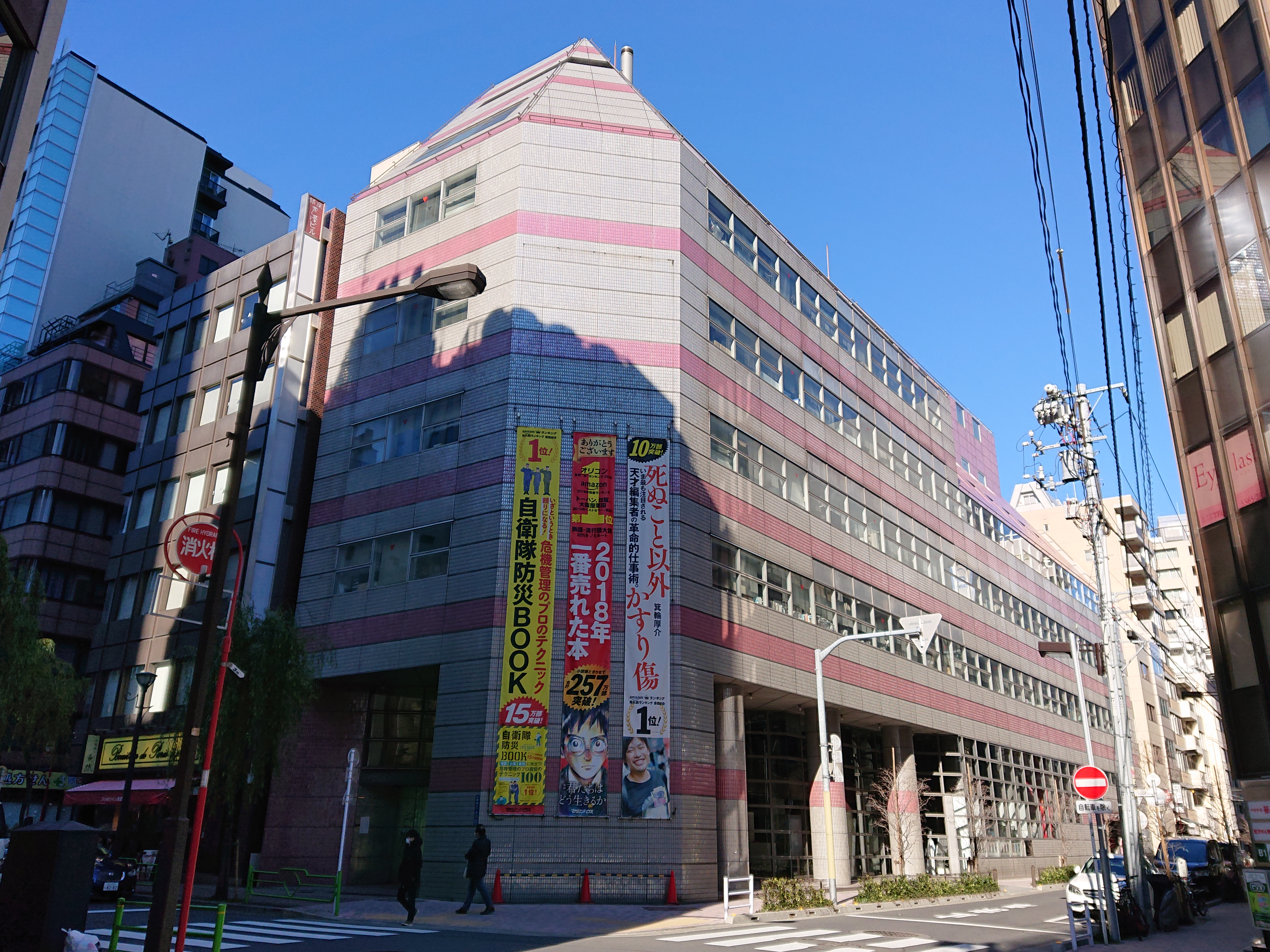 Magazine House (マガジンハウス) headquarters, located at 3-13-10 Ginza, Chuo, Tokyo, Japan